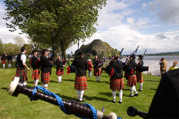 Description: Image of Scottish Pipe Band Championships - held in Dumbarton 2005. Photo credited to Wee David